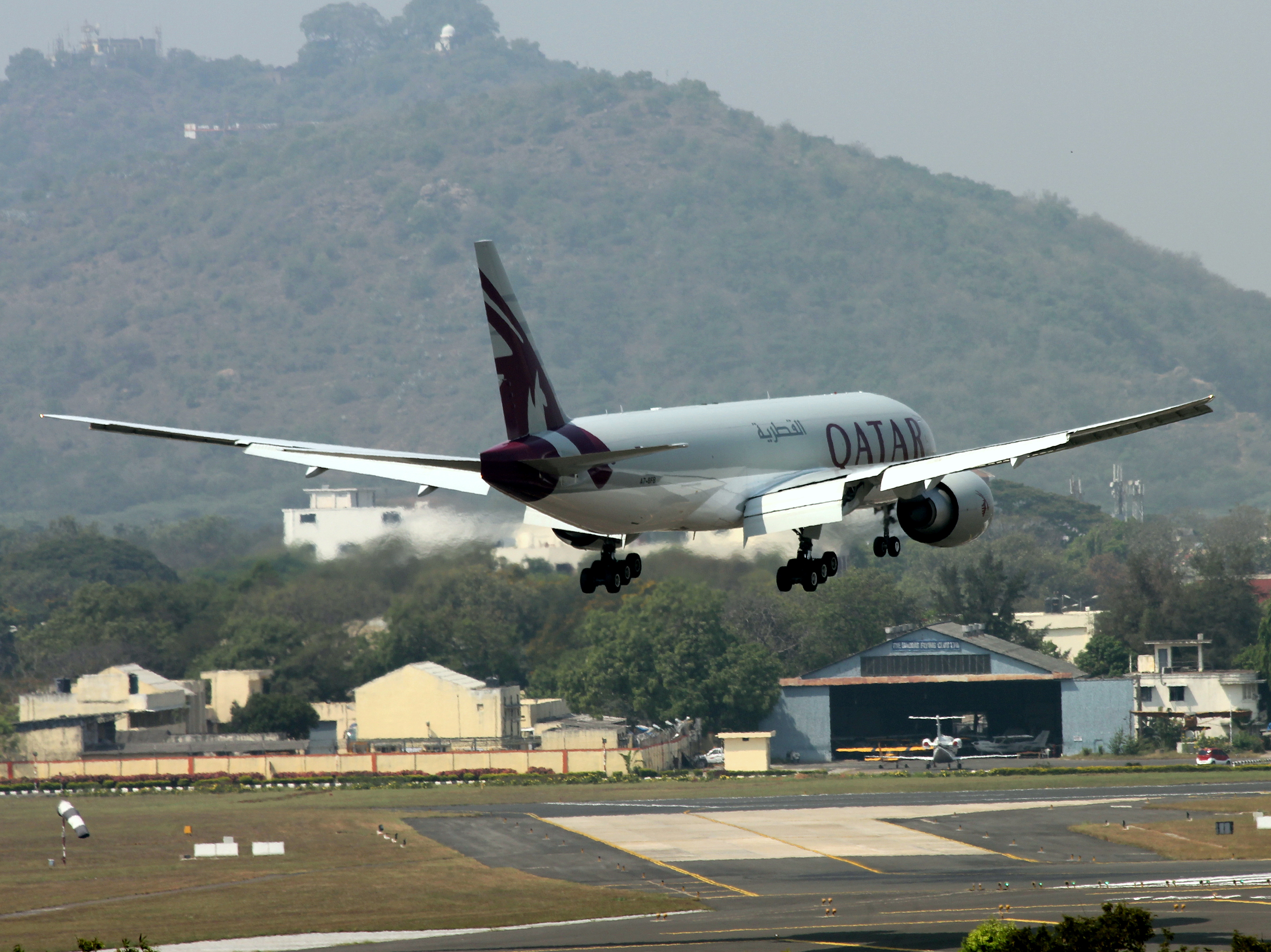 A Qatar Cargo 777F about to land at Chennai International Airport.